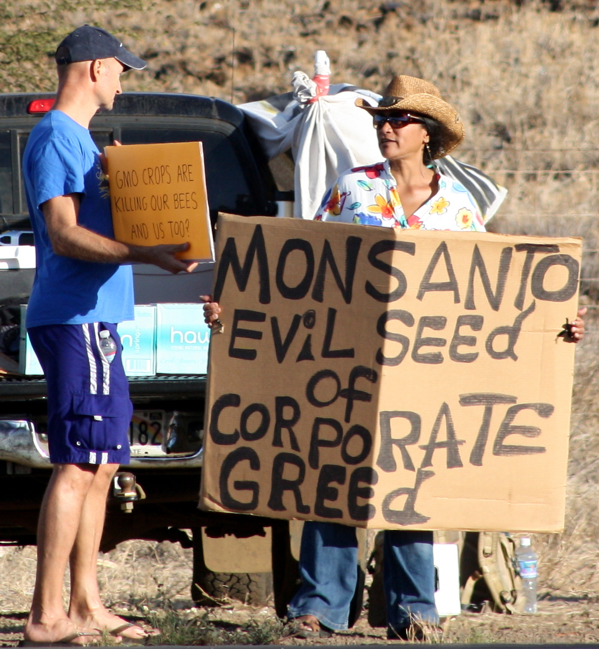 Members of Occupy Wall Street Maui protesting at Monsanto in Kihei.